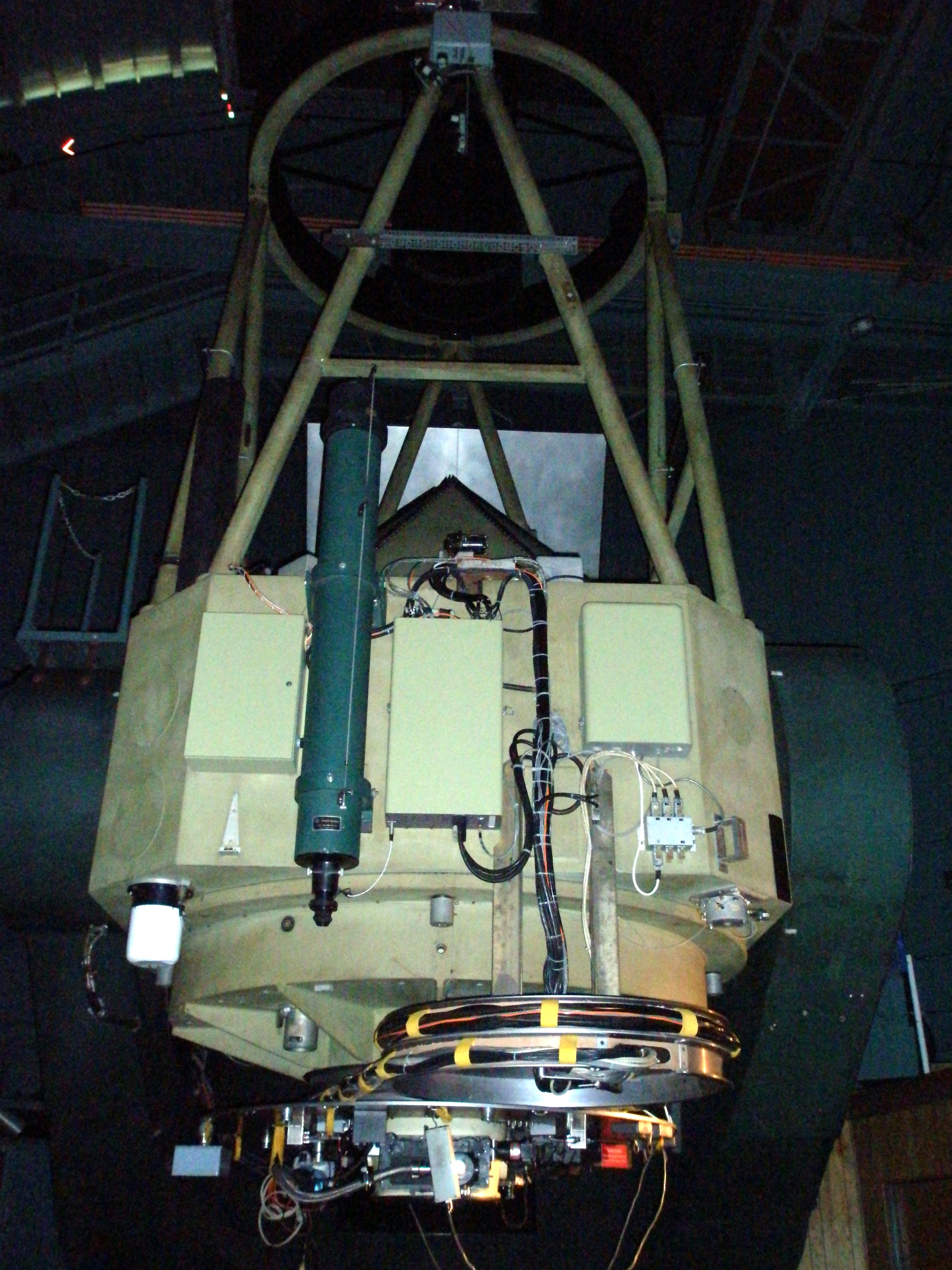 View of the Bok 90-inch telescope, with 90prime mounted. Kitt Peak National Observatory, Arizona, USA.